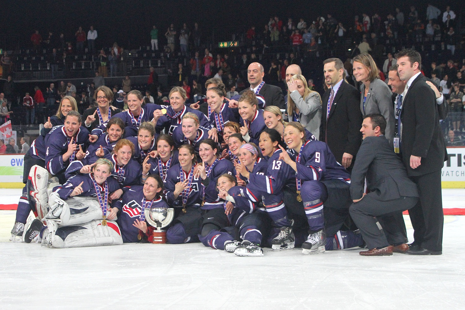 IIHF World Women Championship 2011. Gold Medal Game USA - Canada 3-2 OT.